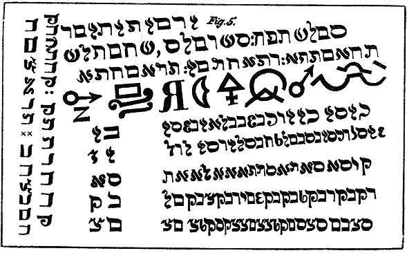 "Cherubim and Seraphim, with their Character.19 19. S: Das vierte Siegel der dienstbaren Cherubim und Seraphim mit ihrem Charakteur. EE: "... Characteristics." CONJURATION. I, N. N., a servant of God, call upon thee, desire and conjure thee, O Spirit Anoch, by the wisdom of Solomon, by the obedience of Isaac, by the blessing of Abraham, by the piety of Jacob and Noah, who did not sin before God, by the serpents of Moses, and by the twelve tribes, and by the most terrible words: Dallia, Dollia, Dollion, Corfuselas, Jazy, Agzy, Anub,20 Tilli, Stago, Adoth, Suna, Doluth,21 Alos, Jaoth, Dilu, and by all the words through which thou canst be compelled to appear before me in a beautiful, human form, and give what I desire. (This the conjuror most name.)" Scan of plate 19 of the 1880 translation of the 1849 Johann Scheible (editor) version of The Sixth And Seventh Books Of Moses. No Author given. "The sixth and seventh books of Moses: or, Moses' magical spirit-art, known as the wonderful arts of the old wise Hebrews, taken from the Mosaic books of the Cabala and the Talmud, for the good of mankind. Translated from the German, word for word, according to old writings". s.n., New York 1880. translation of Das sechste und siebente Buch Mosis, das ist: Mosis magische Geisterkunst, das Geheimniss aller Geheimnisse. Sammt den verdeutschten Offenbarungen und Vorschriften wunderbarster Art der alten weisen Hebräer, aus den Mosaischen Büchern, der Kabbala und den Talmud zum leiblichen Wohl der Menschen. Wort- und bildgetreu nach alten Handschriften mit 42 Tafeln. (Liepzig, 1849). Online scans avalilable at: The Sixth and Seventh Books of Moses and "The sixth and seventh books of Moses: or, Moses' magical spirit-art, known as the wonderful arts of the old wise Hebrews, taken from the Mosaic books of the Cabala and the Talmud, for the good of mankind